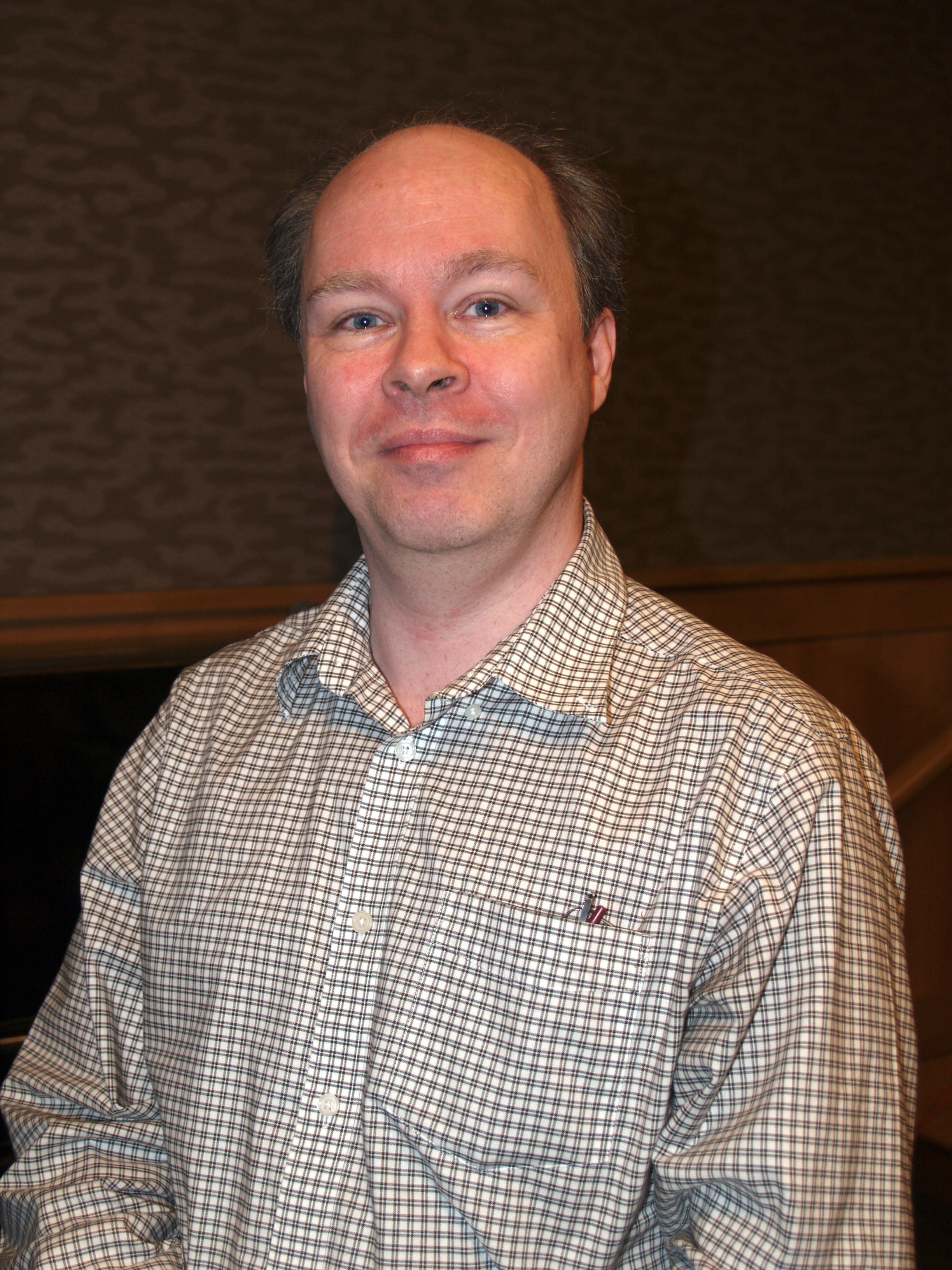 Comedy writer Desmond Devlin at a November 13, 2013 book signing for Inside Mad, a collection of material from Mad magazine, at the Barnes & Noble bookstore on East 86th Street in Manhattan. The book signing was preceded by a visual presentation and a Q&A with him and four other Mad creators. This photo was created by Luigi Novi. It is not in the public domain, and use of this file outside of the licensing terms is a copyright violation.